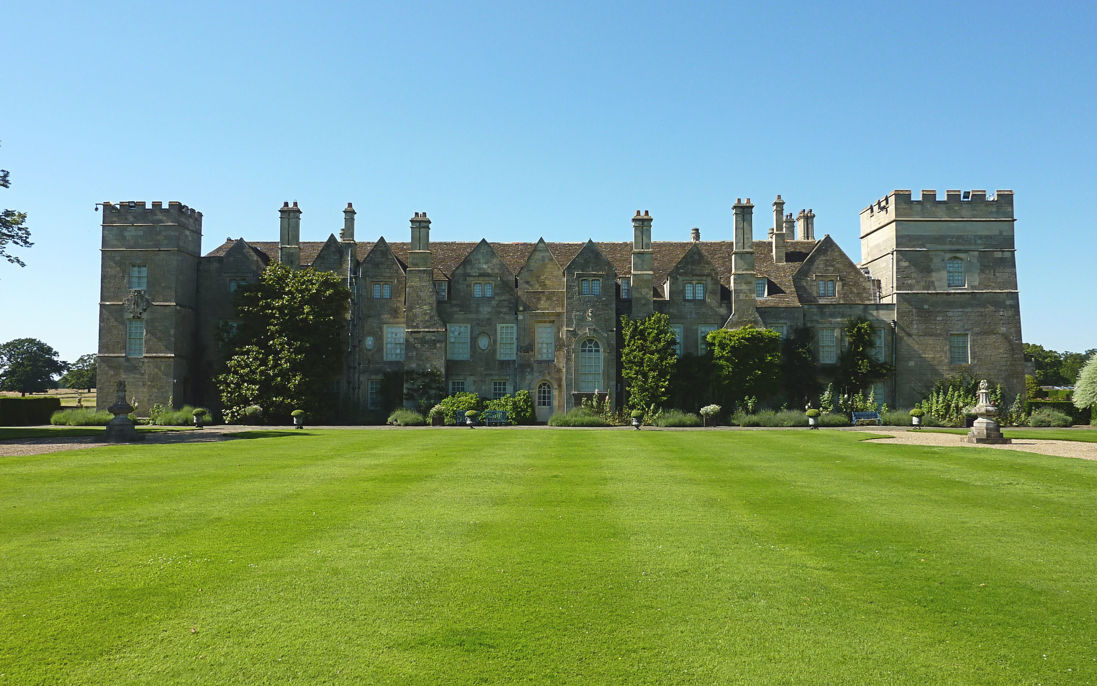 Grimsthorpe Castle - South Facade